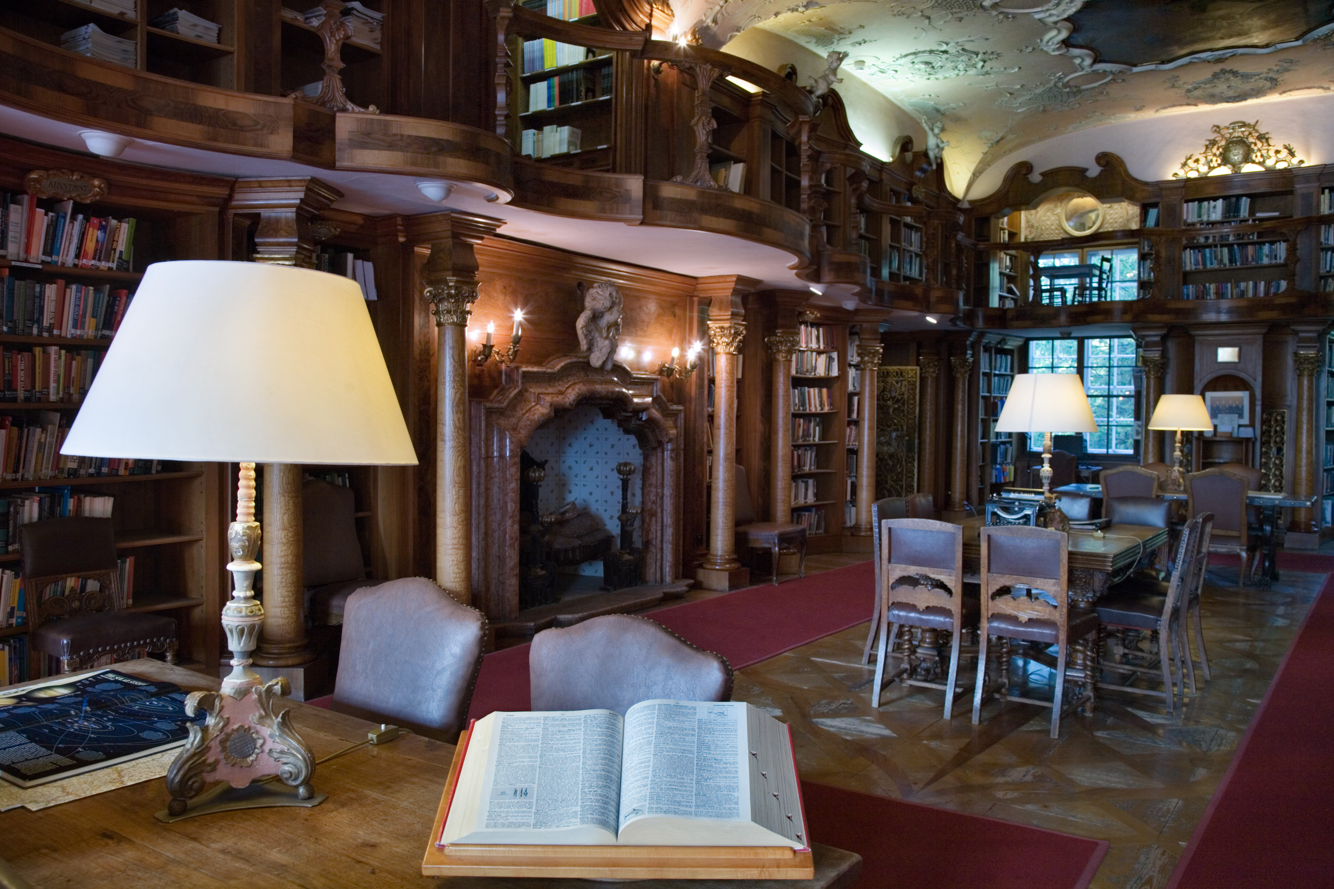 Max Reinhardt Library in Schloss Leopoldskron, Salzburg, Austria. Modelled after the St. Gallen's monastery library in Switzerland.